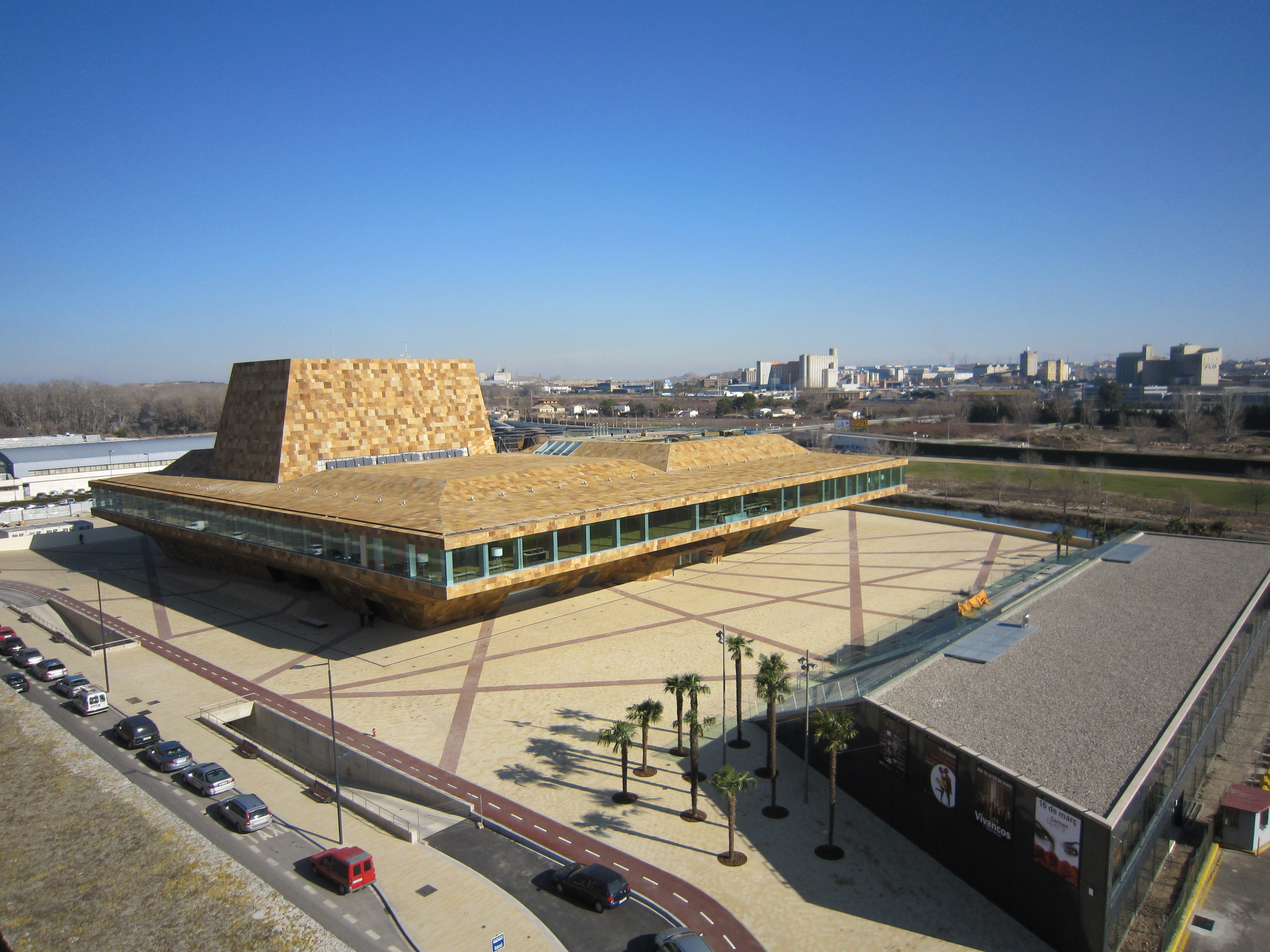 top view of La Llotja de Lleida